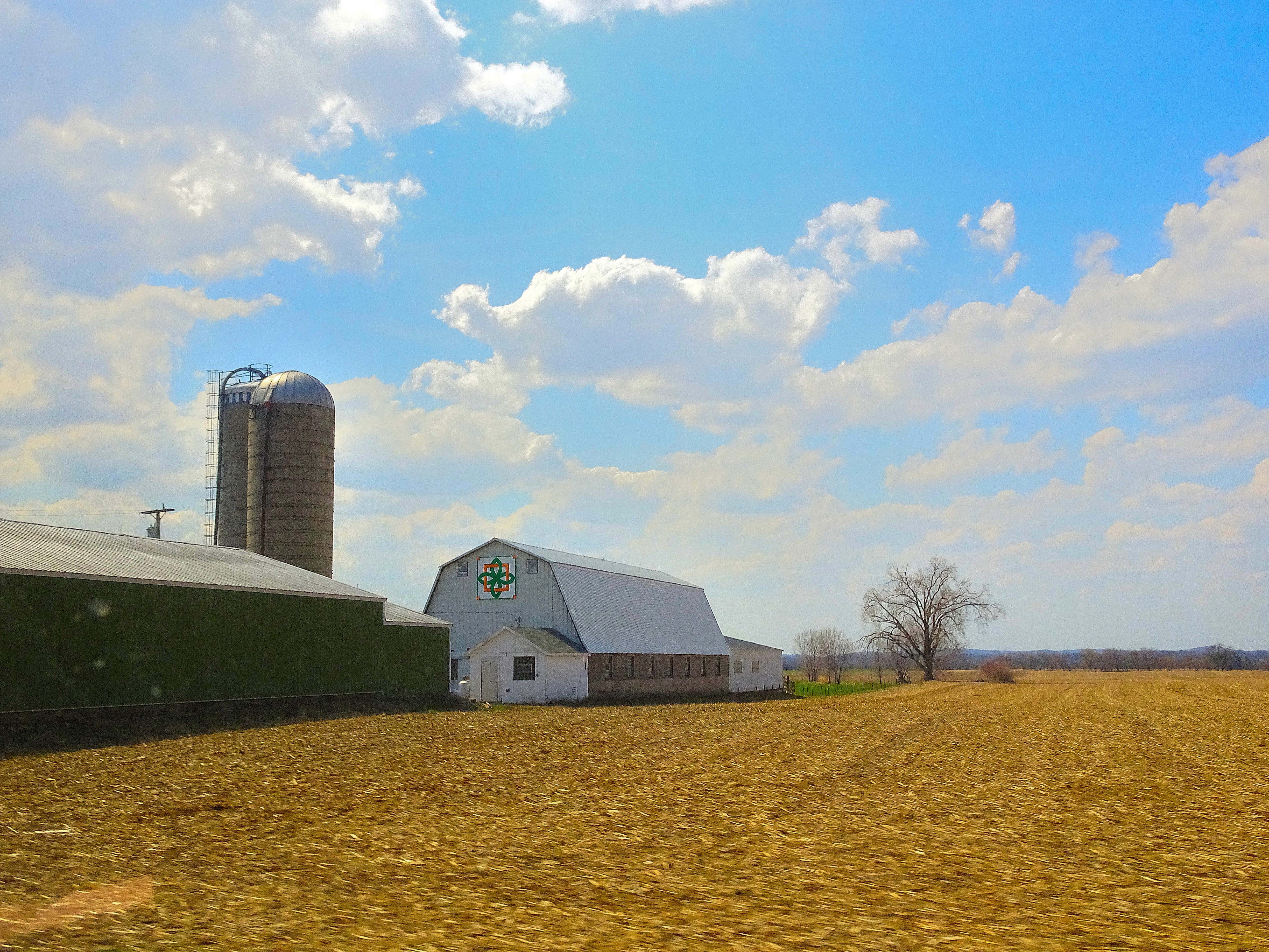 Dairy Farm near Lake Wisconsin